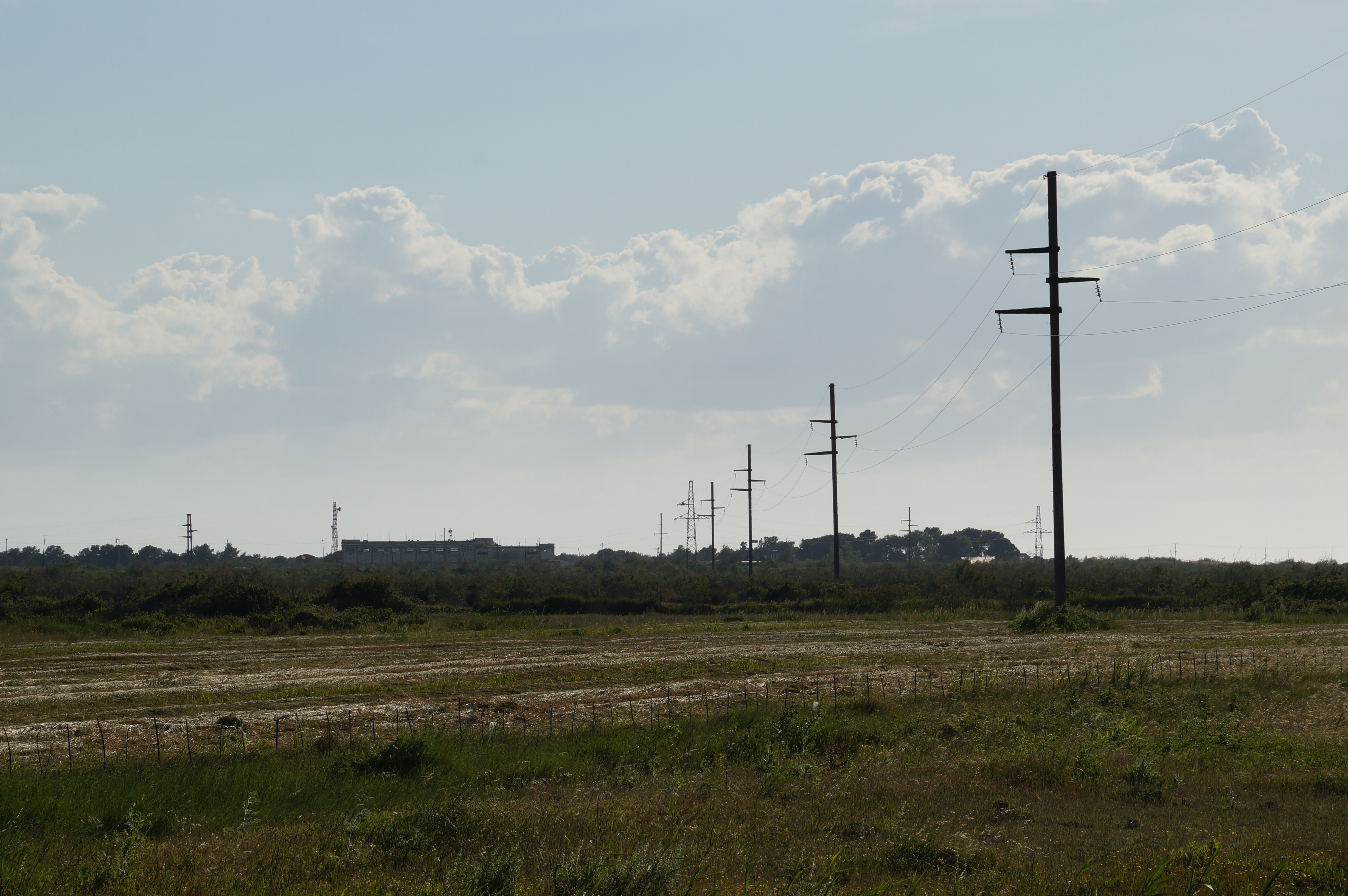 A pumping station near the Adriatic coast in Central Albania (Karavasta)